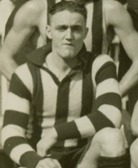 Photograph of Jack Ross in 1931